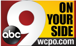 This is a logo for WCPO-TV.